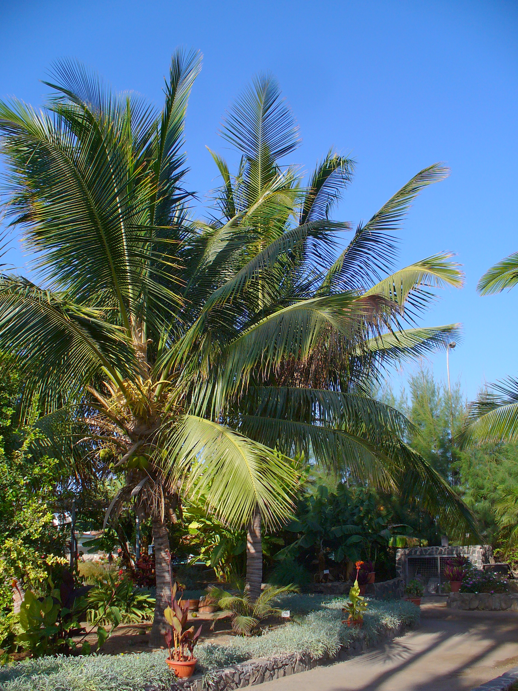 Coconut Palm, habitus; Botanical Garden Maspalomas, Gran Canaria, Canary Islands, Spain